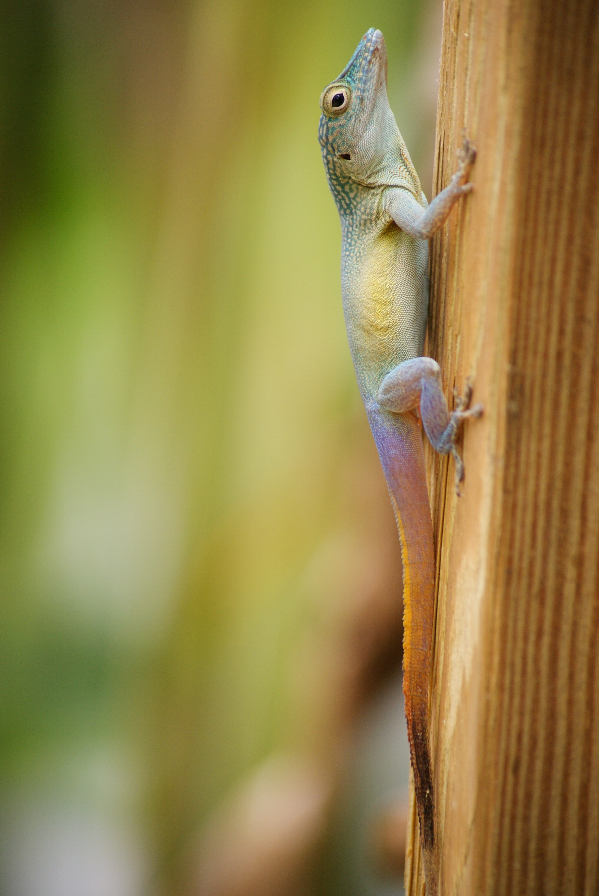 Graham's anole (Anolis Grahami) on wooden post in Jamaica